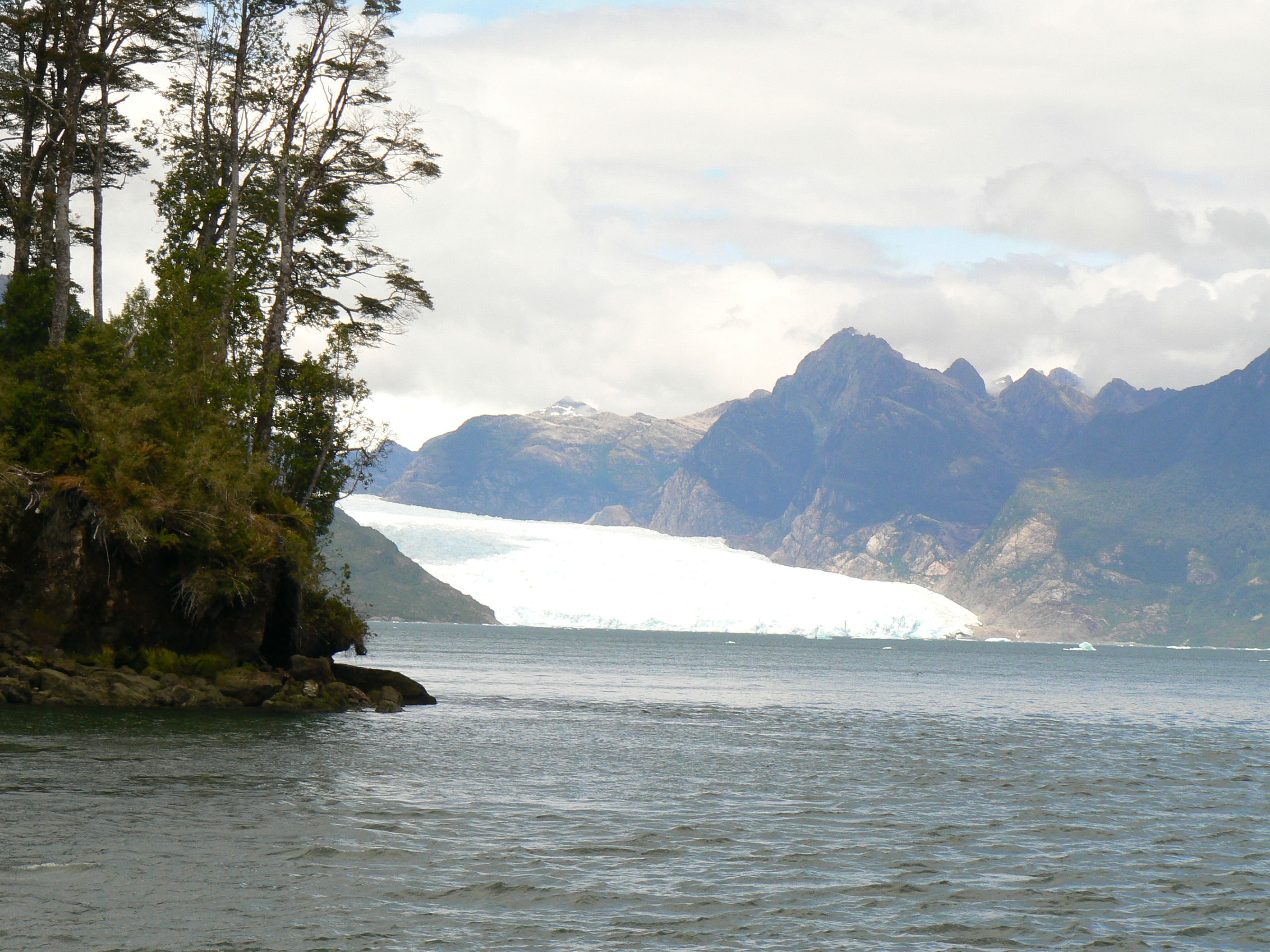 First view of San Rafael Glacier, exiting Río de Los Témpanos.